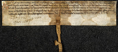 A photograph of a Latin charter of Magnús Óláfsson, King of Mann and the Isles (d. 1265). The charter dates to the year 1256. It is a document releasing Conishead Priory from paying toll on the Isle of Man. The document is shelfmarked "Harley Charter 43 A 70".[1]